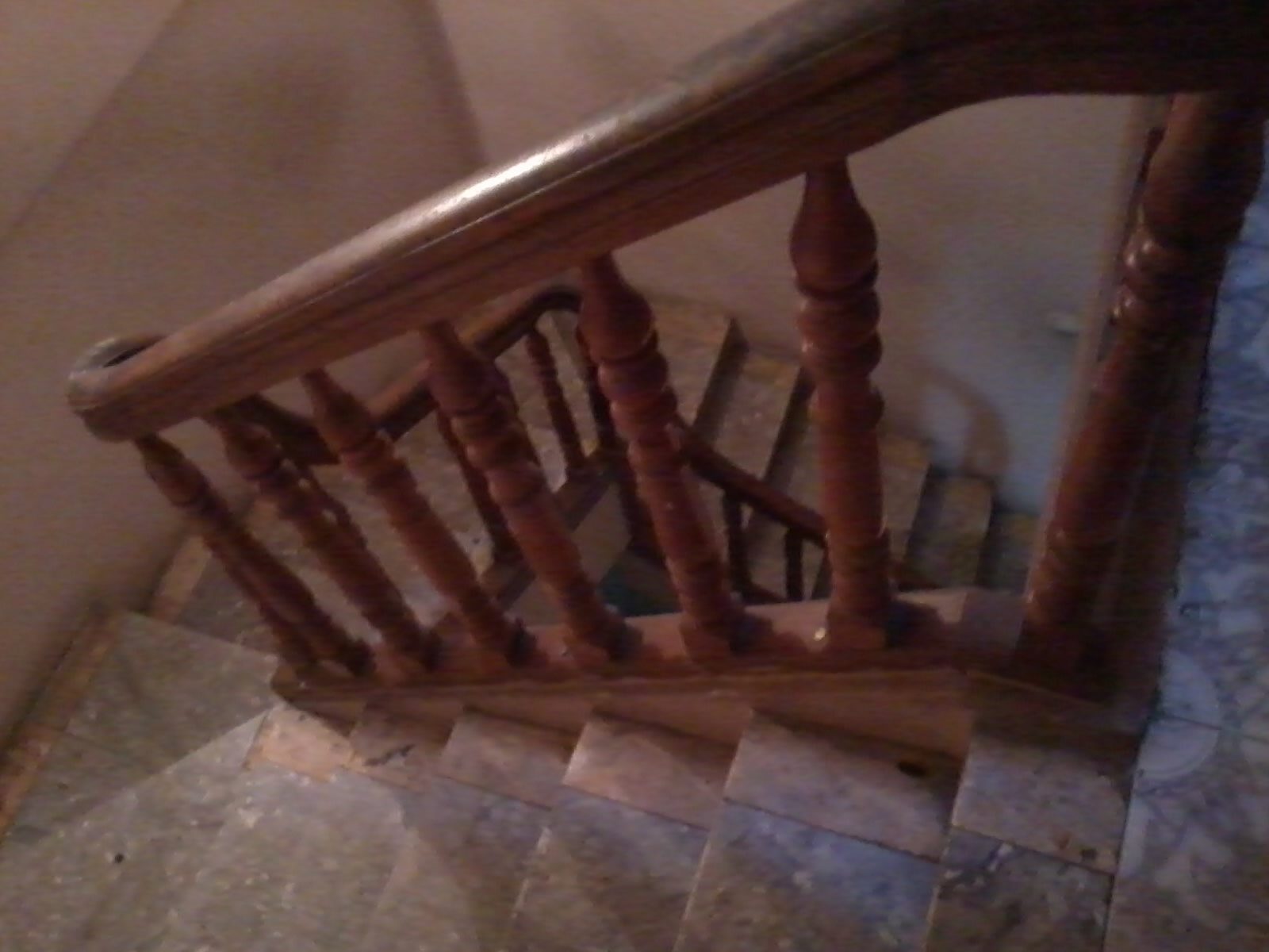 Baluster of stairway, Hanoi, Vietnam.